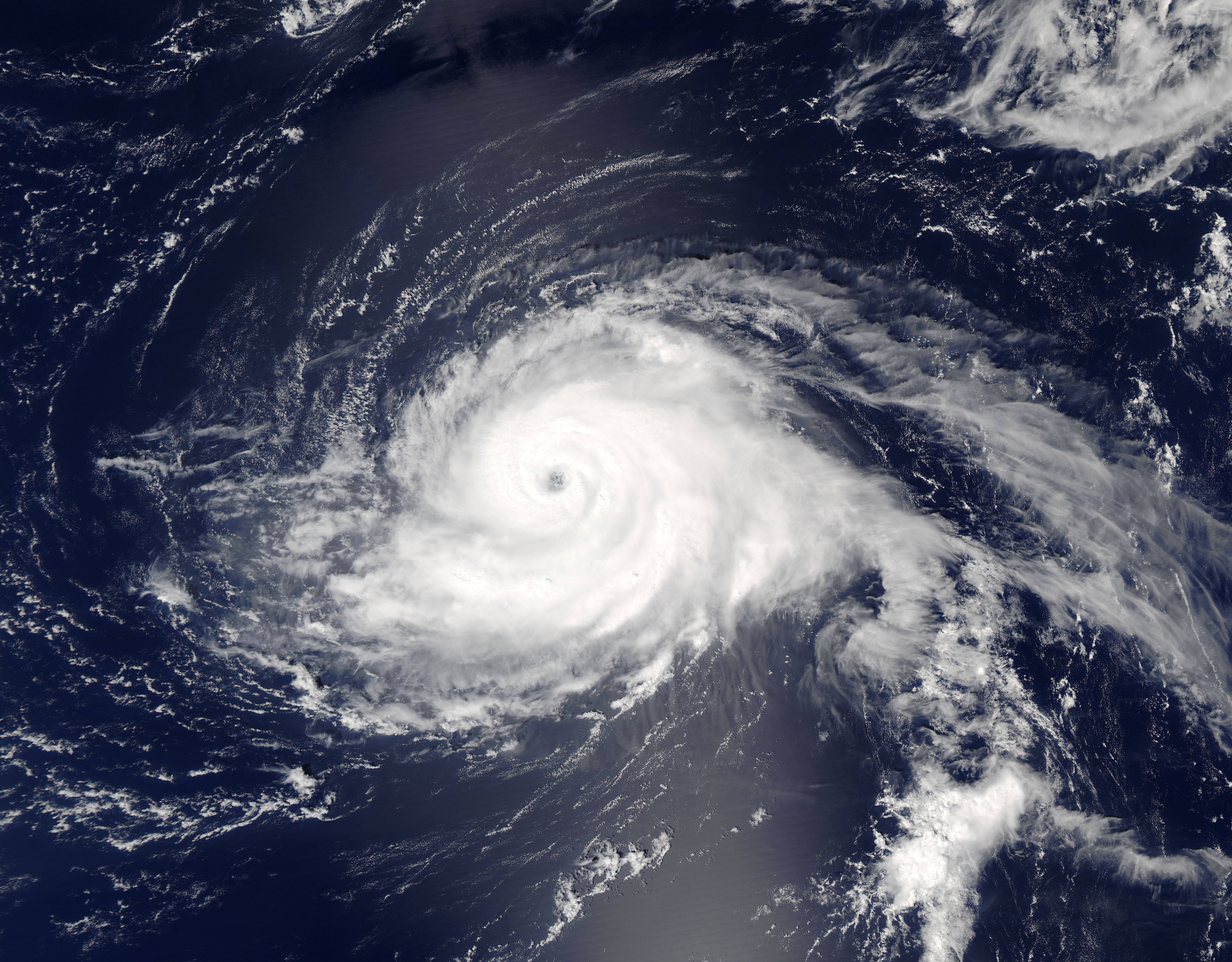 Hurricane Gaston (07L) in the central Atlantic Ocean